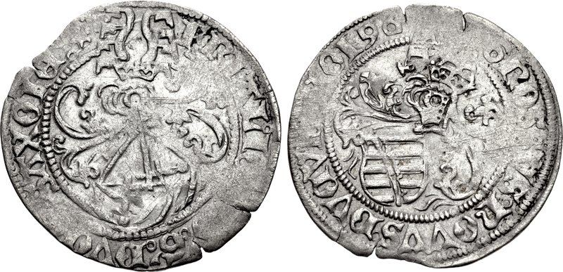 GERMANY, Sachsen (Kurfürstentum und Herzogtum). Friedrich III, with Johann and Albrecht. 1486-1500. AR Zinsgroschen (26mm, 2.65 g, 7h). Leipzig mint. Dated (14)96. Coat-of-arms surmounted by crested helmet left / Coat-of-arms surmounted by crested helmet left. Levinson I-354. VF, toned.